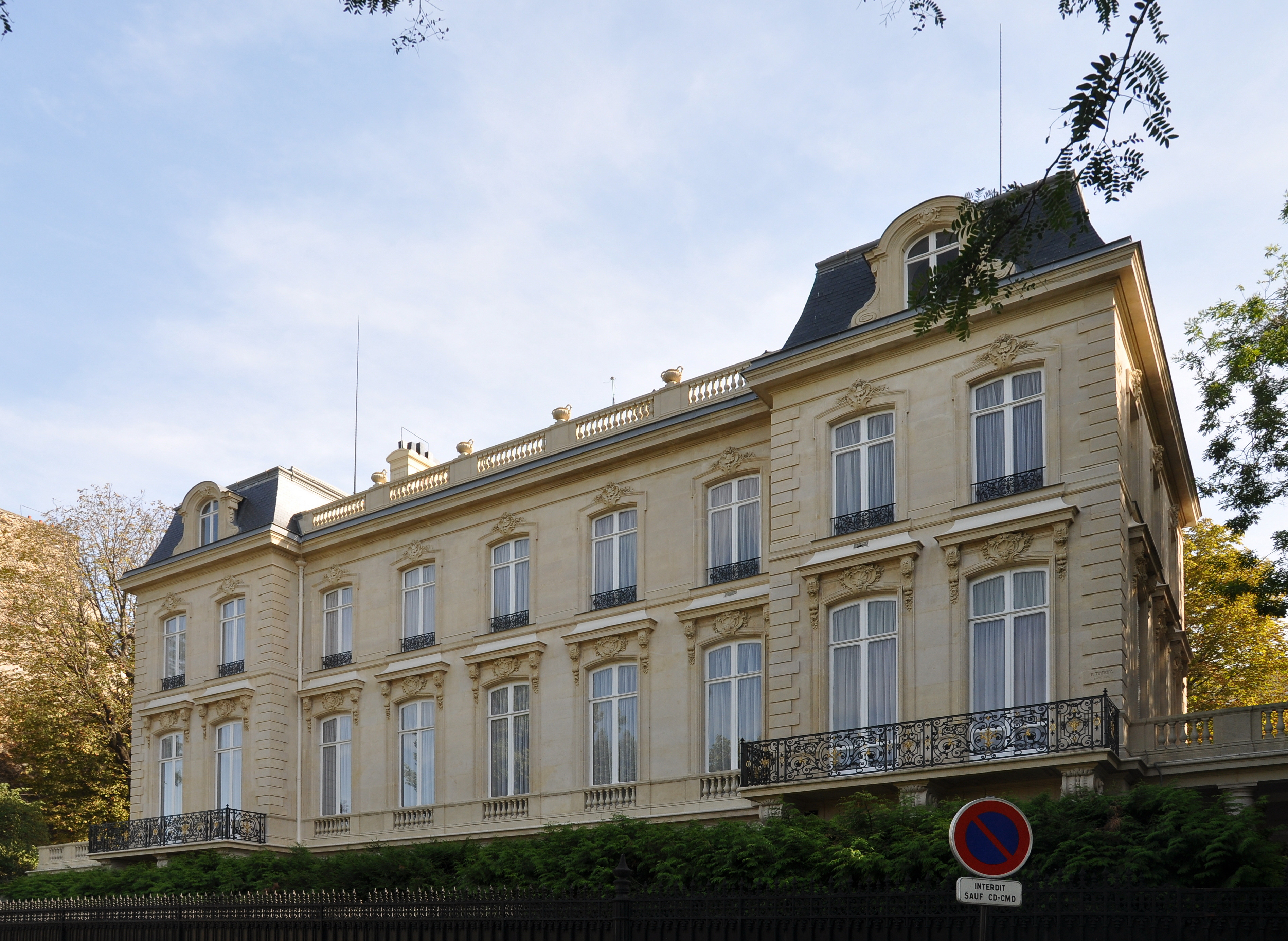 Hôtel de Monpelas is a mansion located at 19 Avenue Foch in the 16th arrondissement of Paris in France. Currently Embassy of the Republic of Angola, this mansion is listed as a historical monument by the French Ministry of Culture.